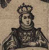 Beatrice of Portugal